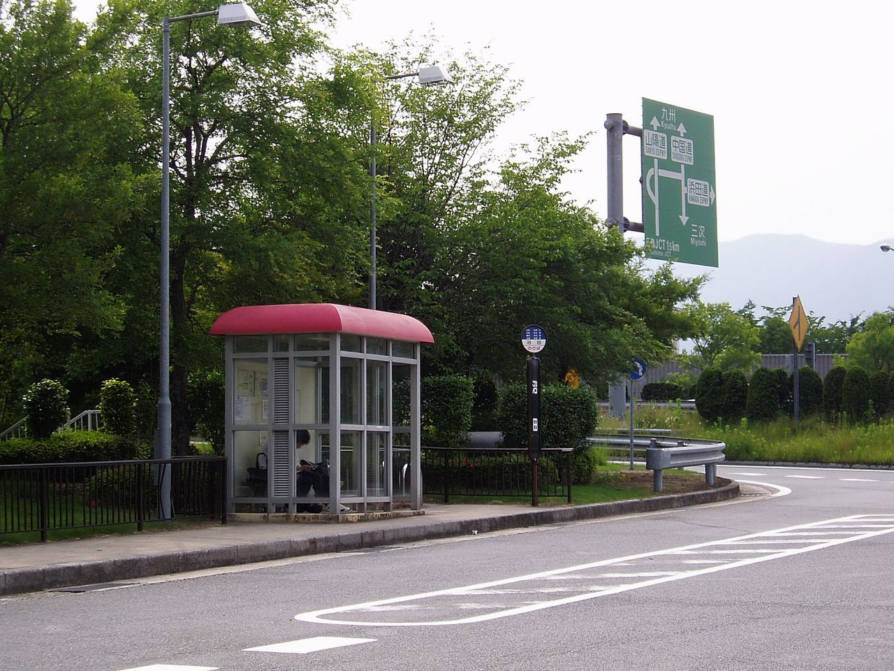 Numata Bus Stop on the Sanyo Expressway outbound line for Yamaguchi